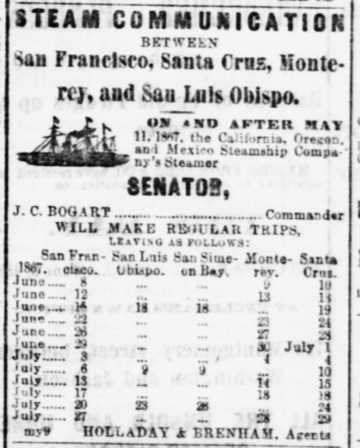 Advertisement for the Steamer Senator from 1867 from the newspaper Daily Alta California from June 8, 1867.